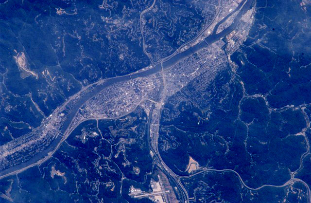 Astronaut Photography of Charleston West Virginia taken from the International Space Station (ISS)